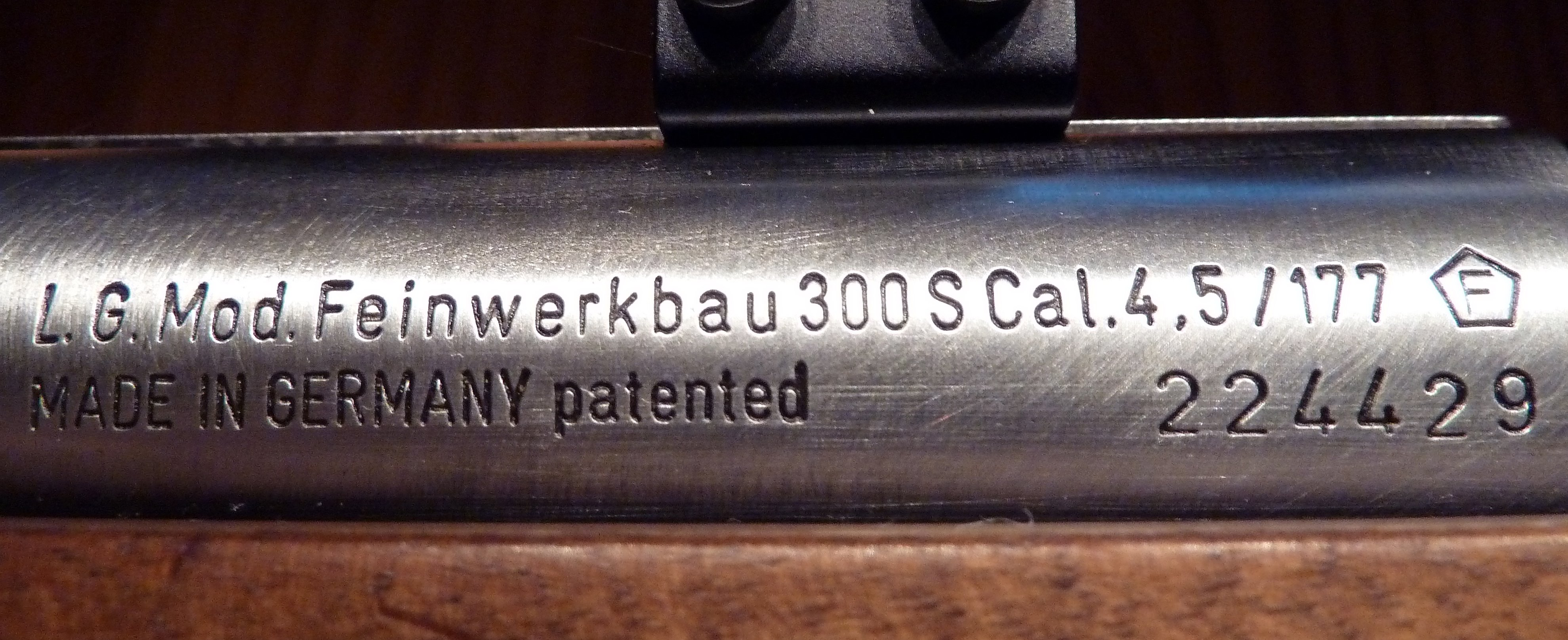 Air Rifle Feinwerkbau 300s - Embossing with "F" inside Pentagon